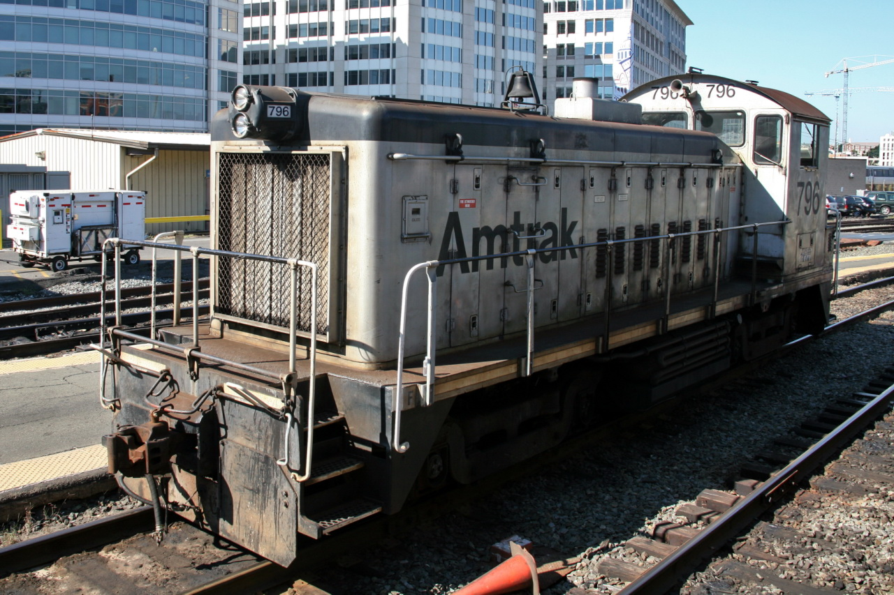 AMTK #796 at Washington, D.C. in 2008.